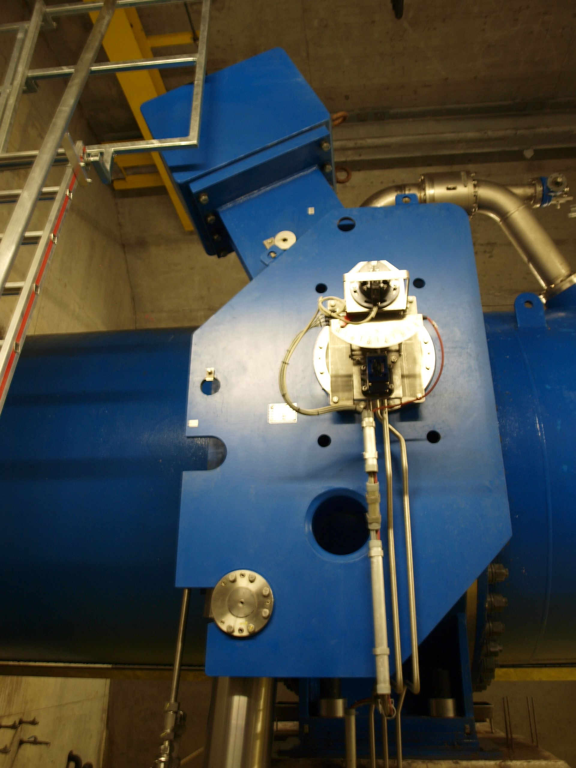 stopcock with counterweight Kopswerk II machine 1